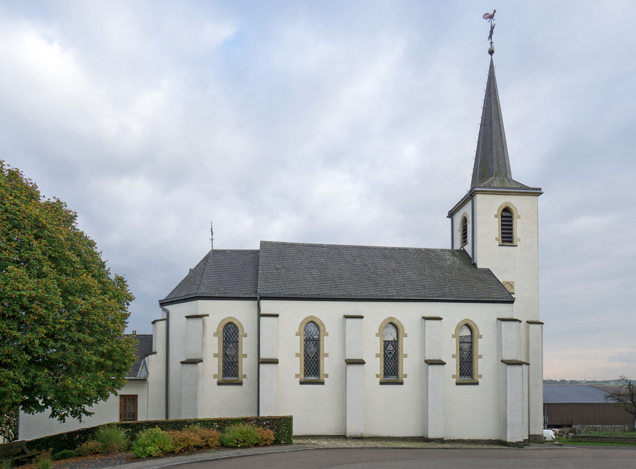 Church of Fischbach near Clervaux